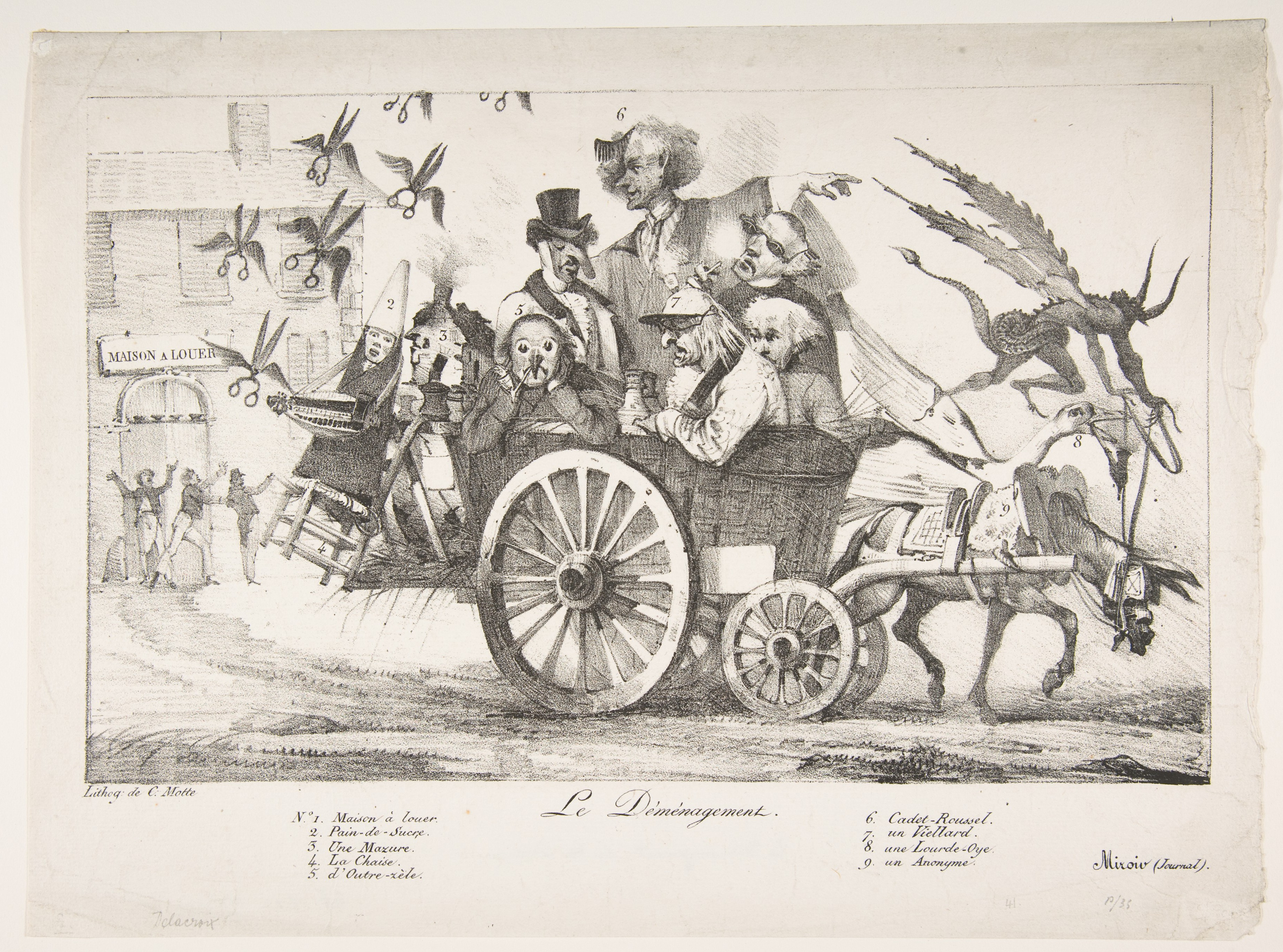 Print; Prints